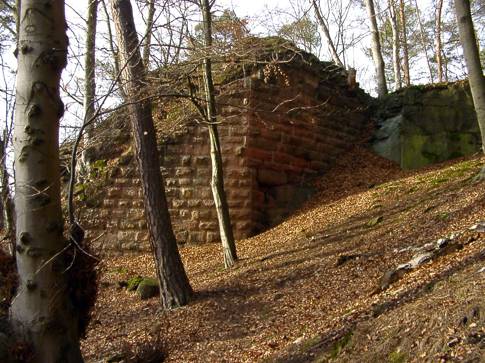 Remains of the Castle Lichtenstein near Neidenfels in Rhineland-Palatinate.